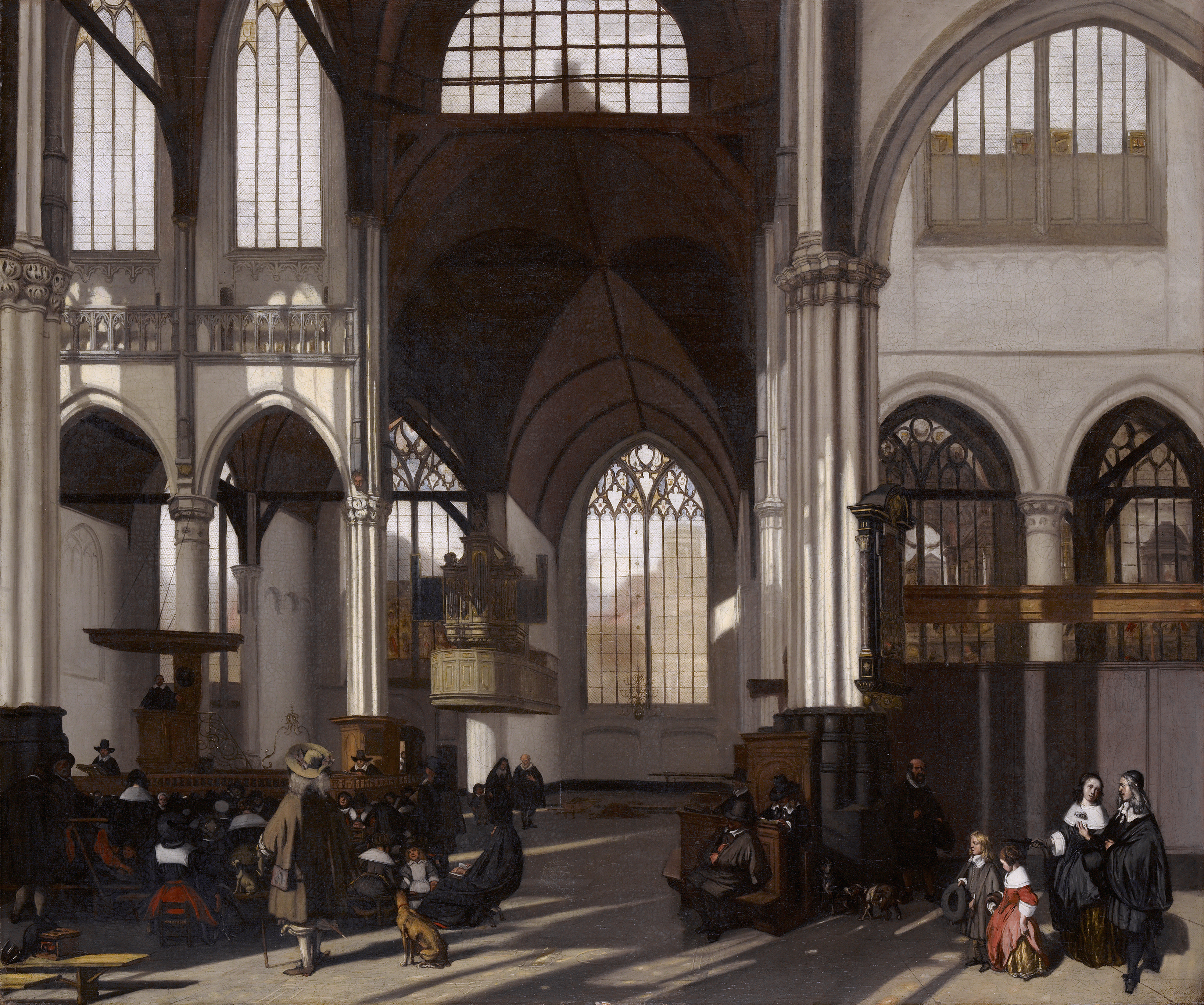 Interior of the Oude kerk in Amsterdam (south nave), *signed b.r.: E DeWitte Aº 1661